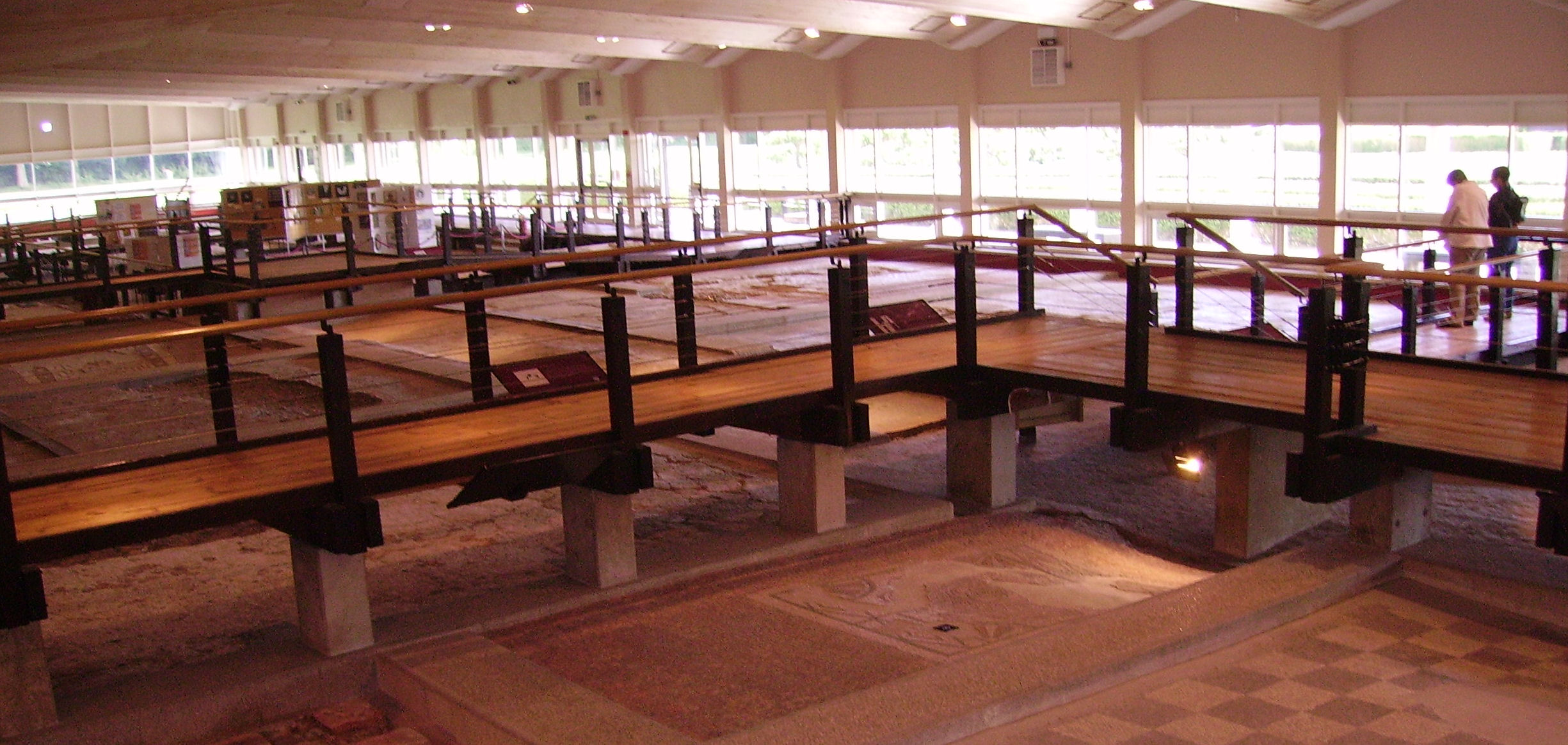 view of Fishbourne Roman Palace in West Sussex, United Kingdom